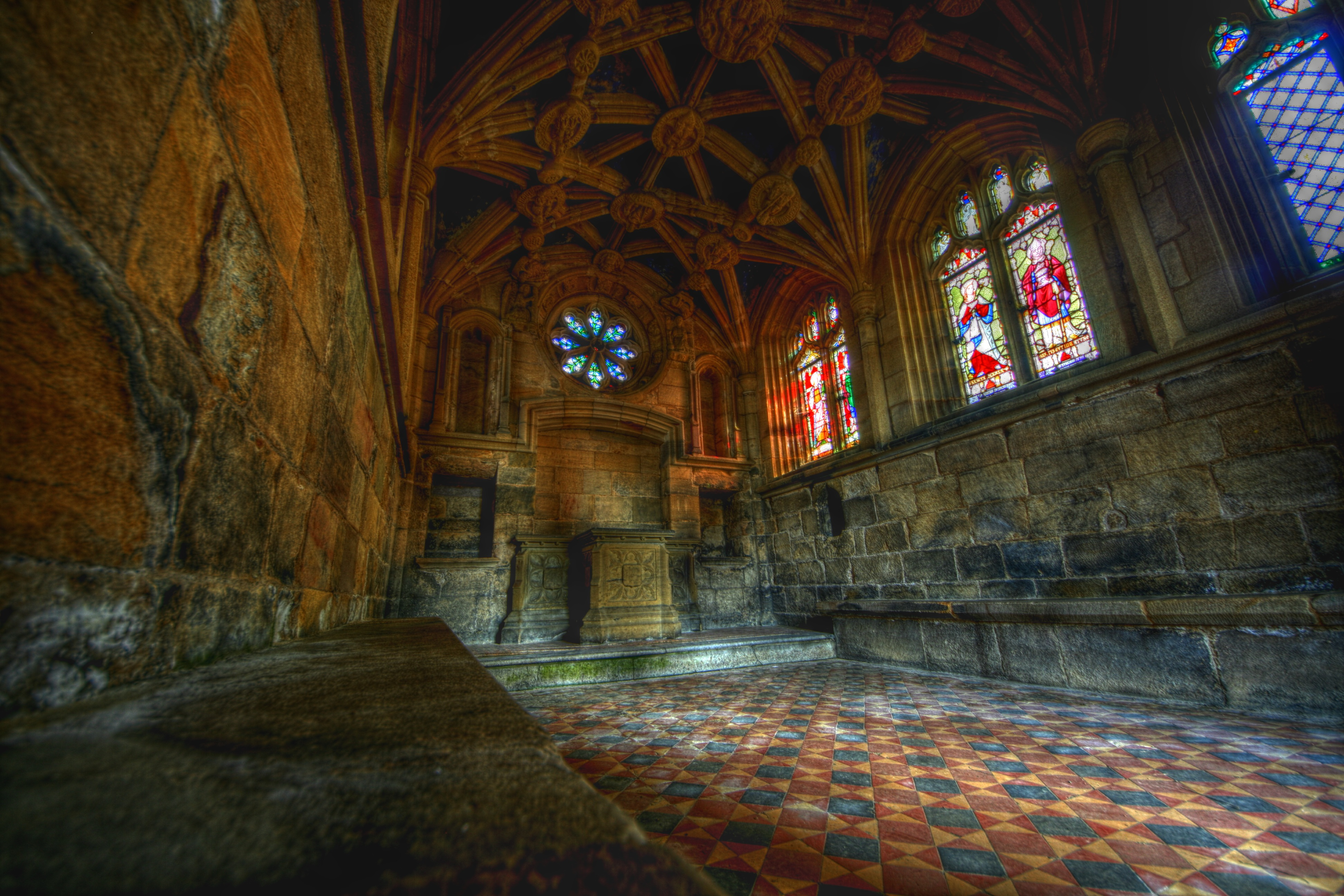 Tynemouth Iron Age and Romano-British settlements, monasteries, site of lighthouse, cross, motte, enclosure and artillery castle Wikidata has entry Q17662220 with data related to this monument.